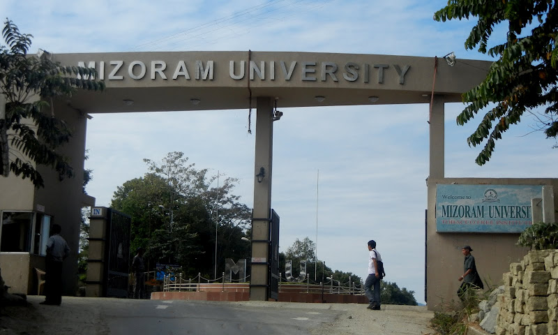 Mizoram University Entrance Gate